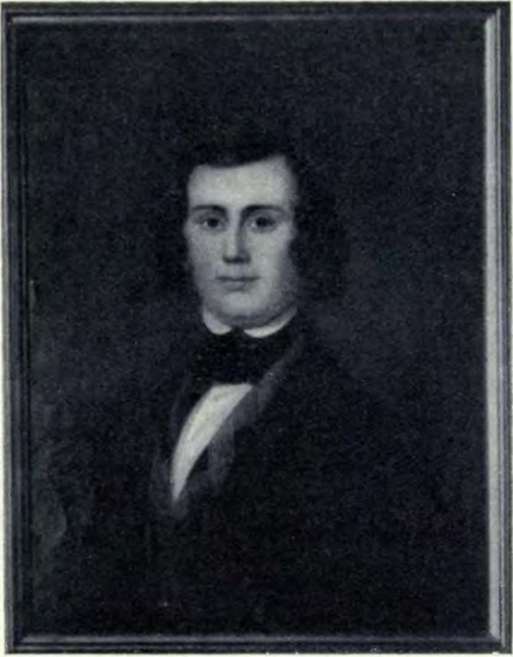 Swedish actor Carl Gustaf Sundberg. After an oil painting by J. G. Köhler 1845, belonging to dr. H. Sundberg. Image from Nils Personne: Svenska Teatern VIII (1927).